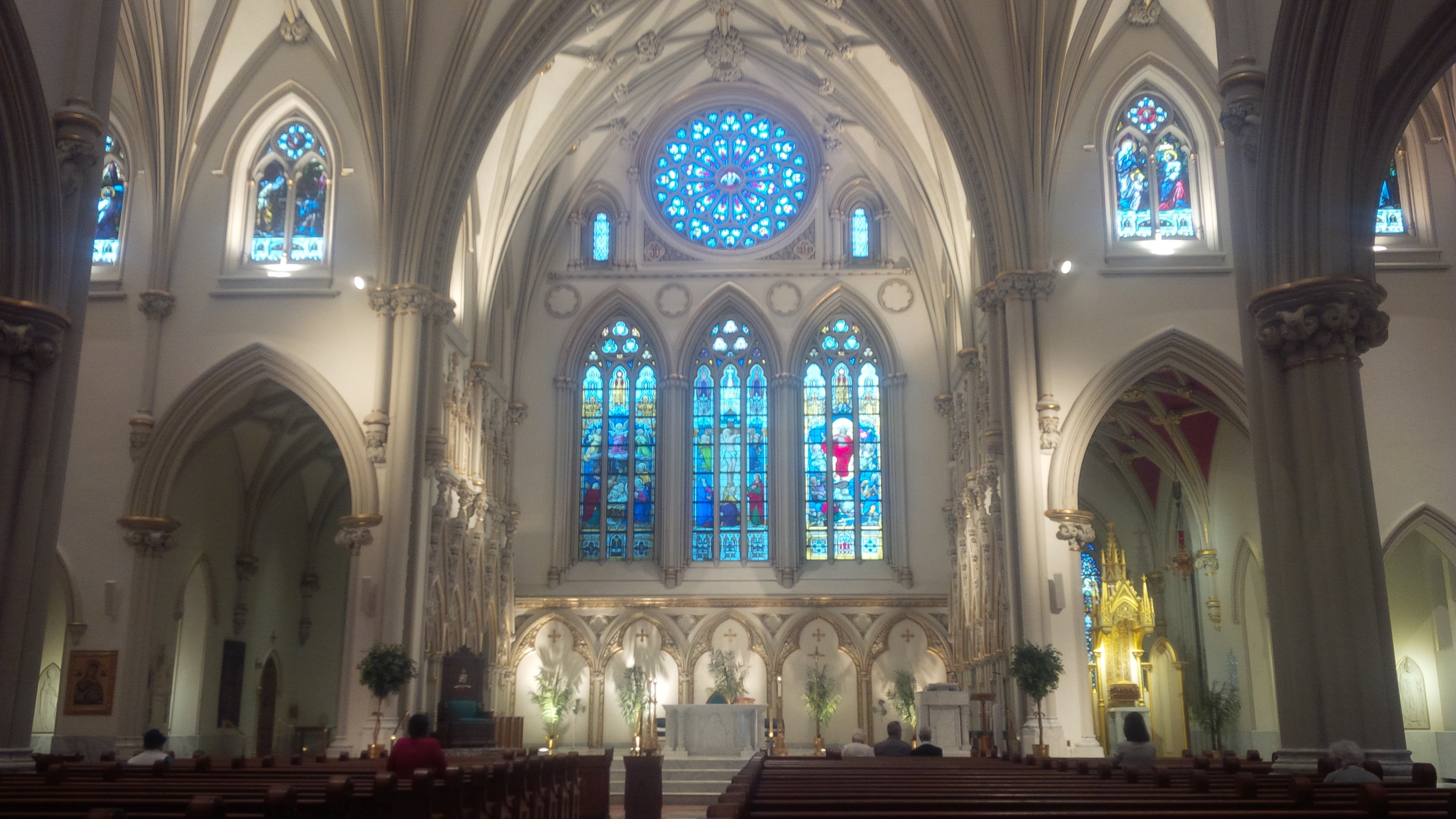 Interior Saint Joseph Cathedral - Buffalo